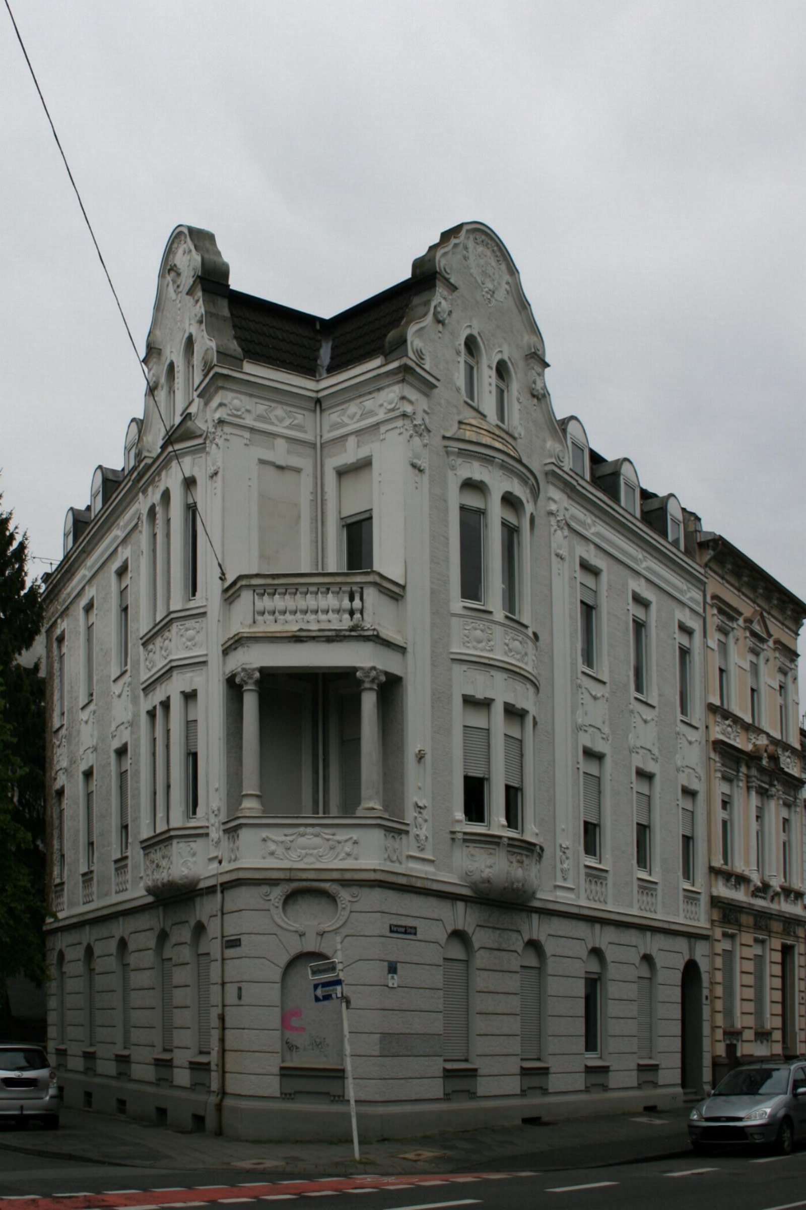 Cultural heritage monument No. V 014 in Mönchengladbach